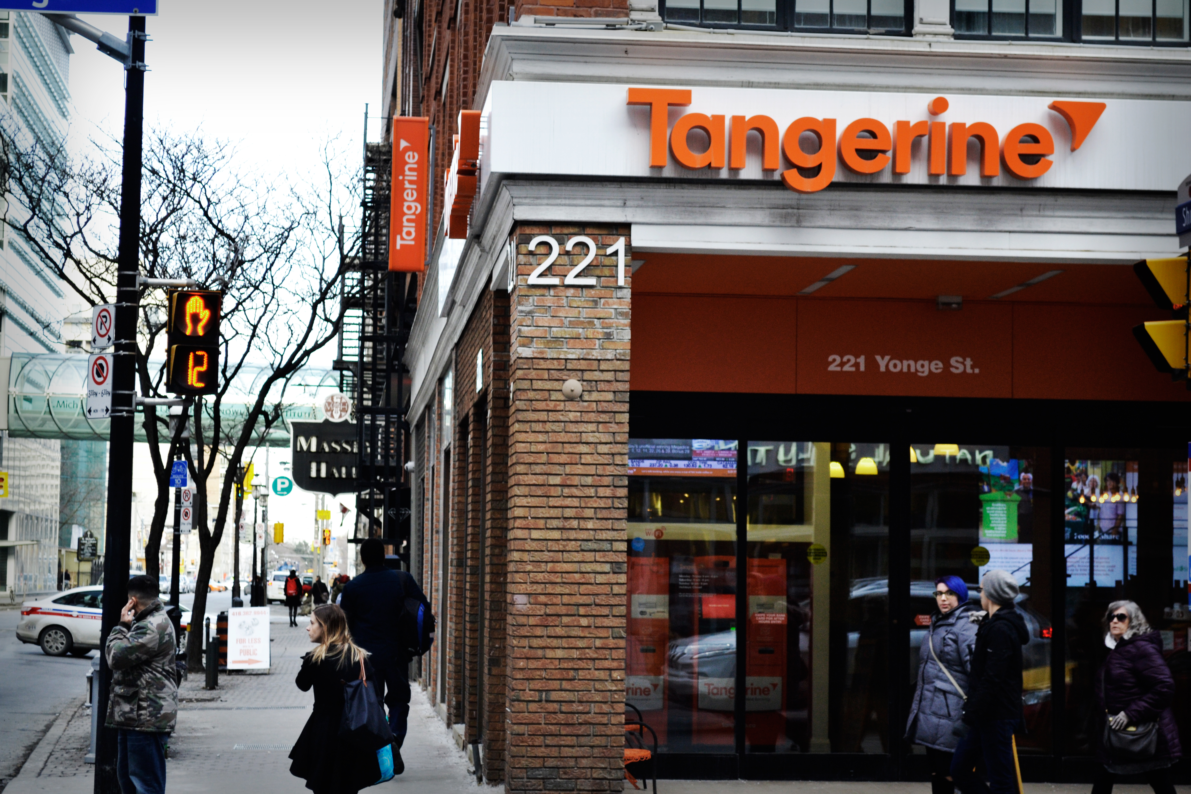 A café (branch) of Canadian bank Tangerine on Yonge Street in Toronto.